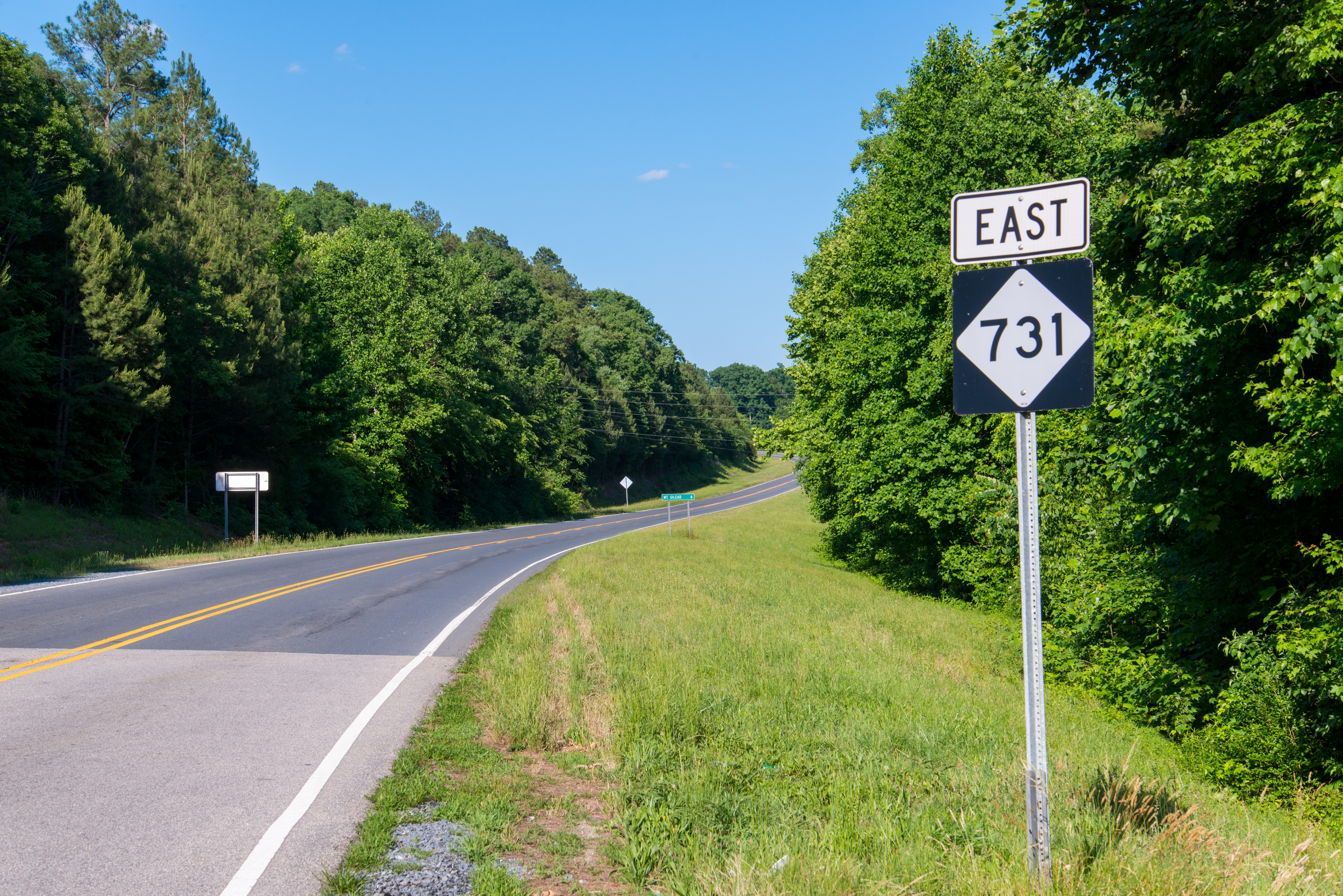 First sign of eastbound NC 731 towards Mount Gilead, located south of Norwood along US 52.